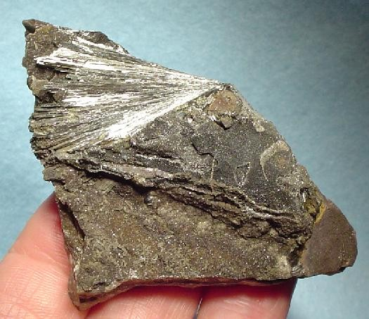 Pyrolusite Locality: Michigamme, Marquette iron range, Marquette County, Michigan, USA (Locality at ) Size: 5.8 x 5.0 x 2.5 cm. A showy and excellent, old-time specimen of a brilliant, 3.5 cm, divergent spray of pyrolusite needles on layered matrix from the old iron mines of Marquette County, Michigan. Ex. George Elling Collection.